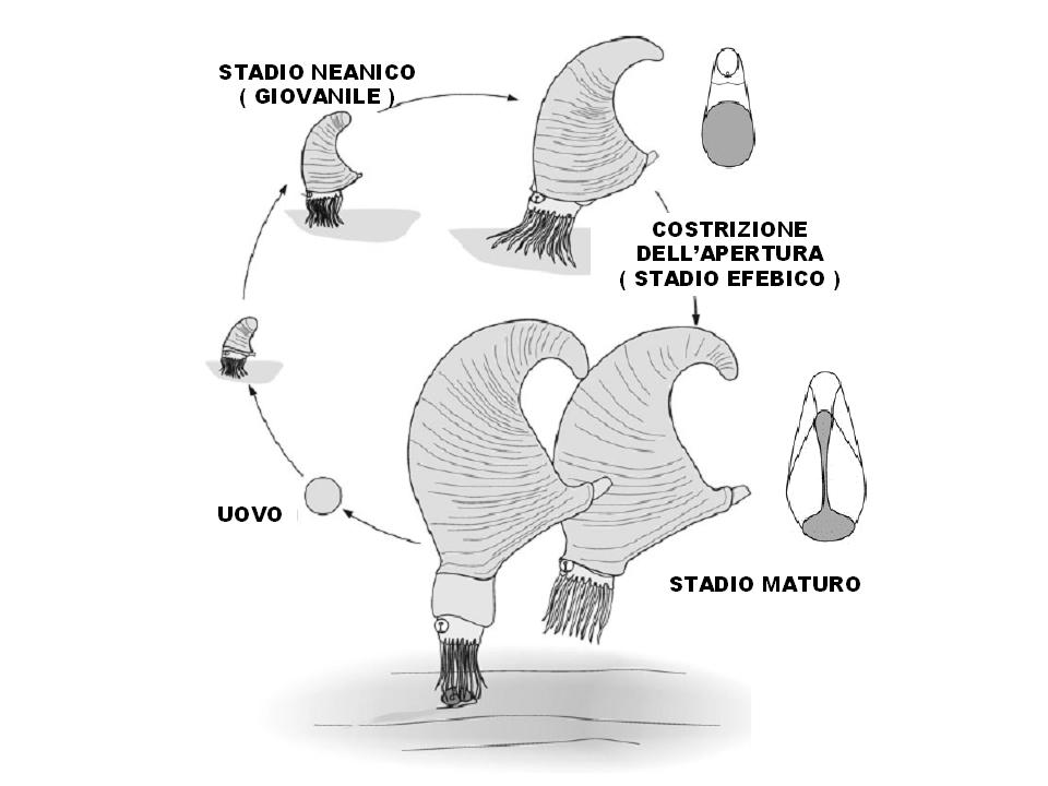 Ontogeny of Phragmoceratids. After Manda S. (2008), modified.